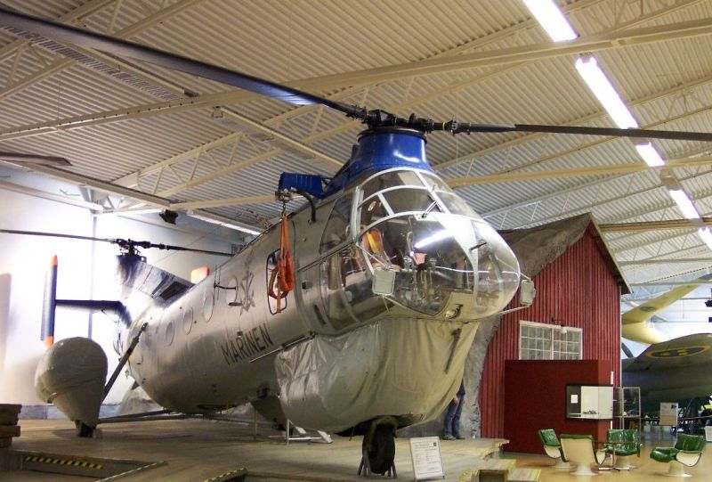 Swedish Piasecki H-21